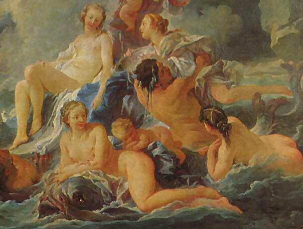 Detail of The Triumph of Venus. Painting used to hang in Drottningholm Palace, Stockholm, Sweden